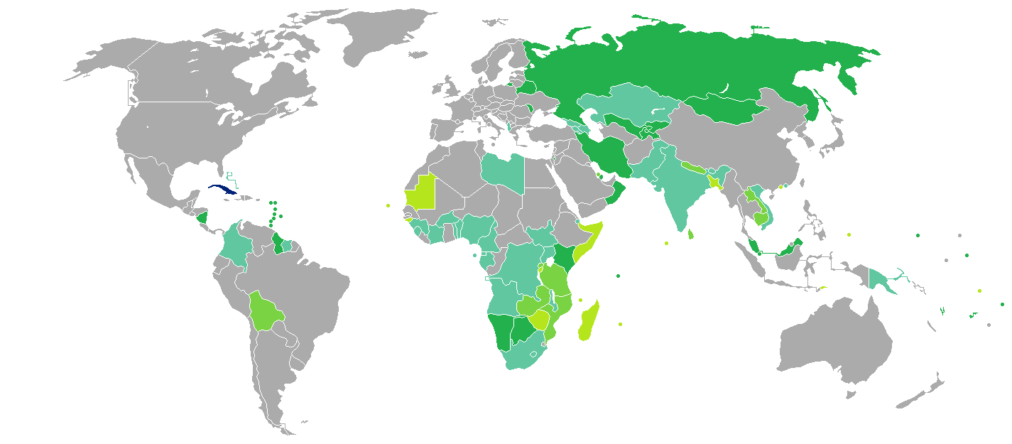 Visa requirements for Cuban citizens Cuba Visa free access Visa on arrival eVisa Visa available both on arrival or online Visa required